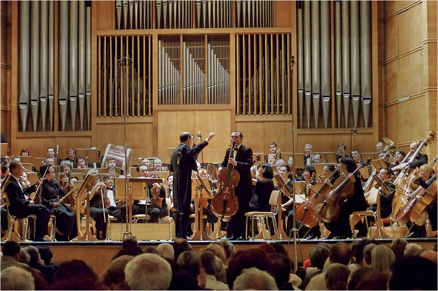 Bulgaria hall, Sofia: with the Symphonic Orchestra of the Bulgarian National Radio, opening of the season 2009-2010, conductor Emil Tabakov